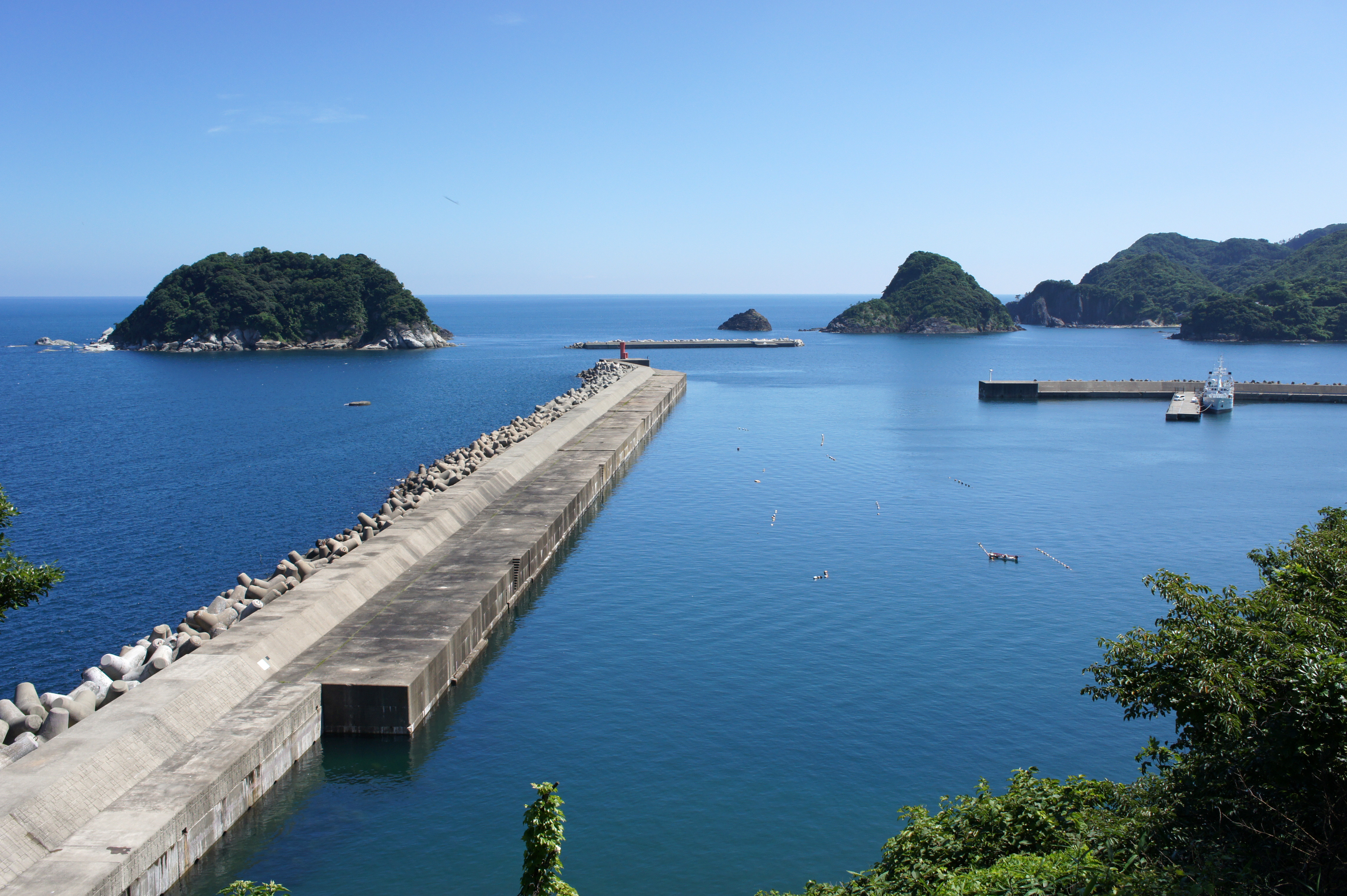 Kasumi Port view from Okami park in Kami, Hyogo prefecture, Japan.